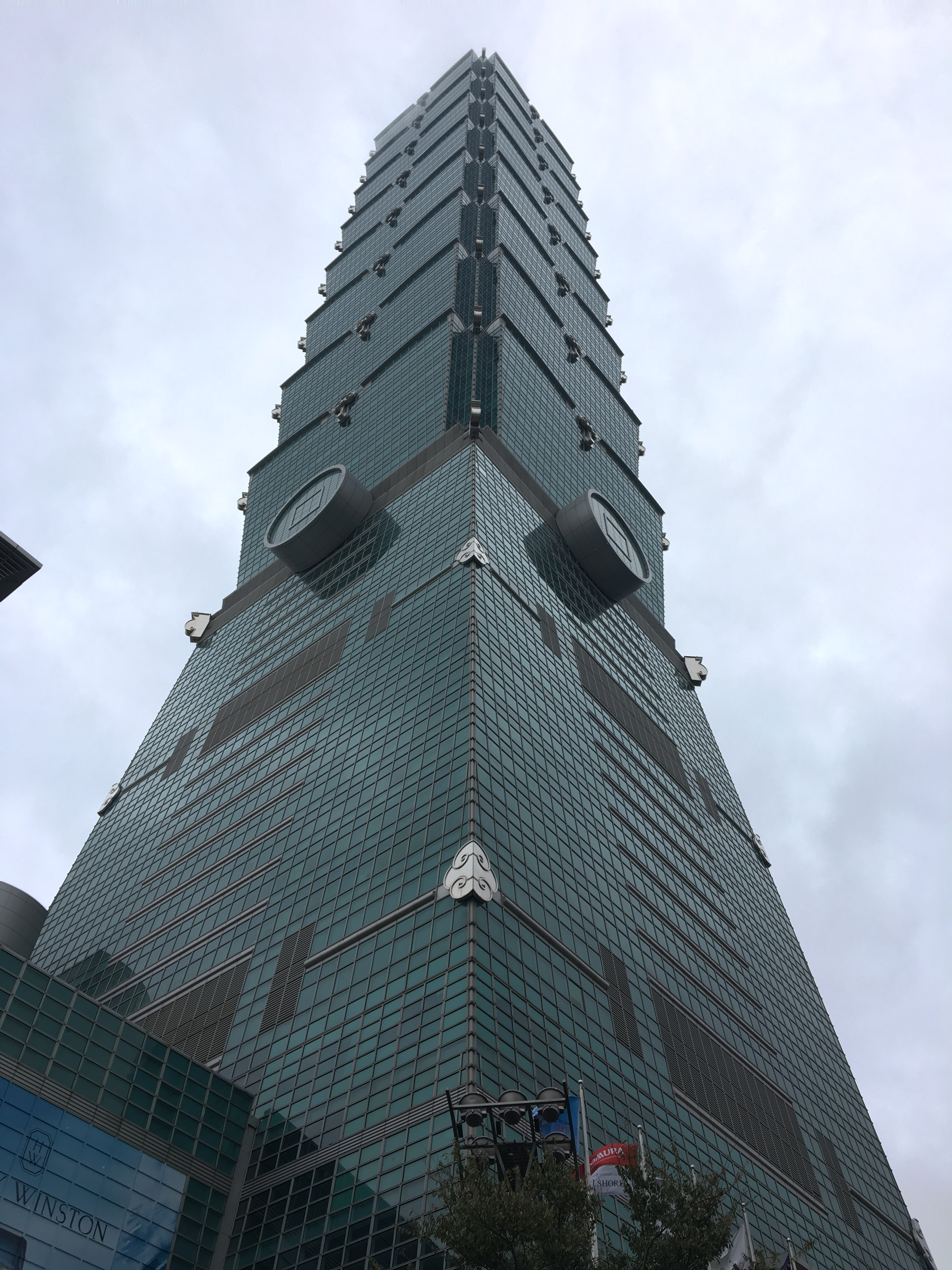 Taipei 101 taken from the ground level